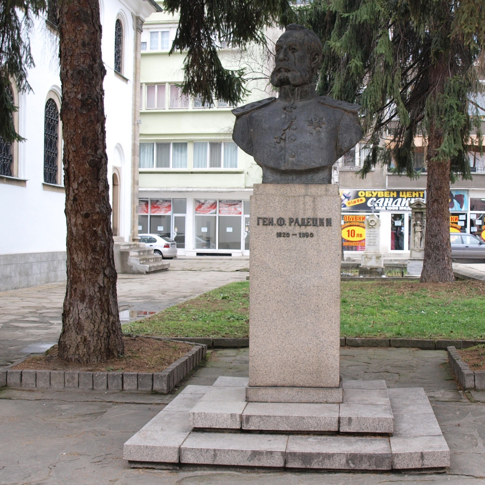 The monument of the Russian general Fedor Fedorovich Radetzky in Gabrovo, Bulgaria.